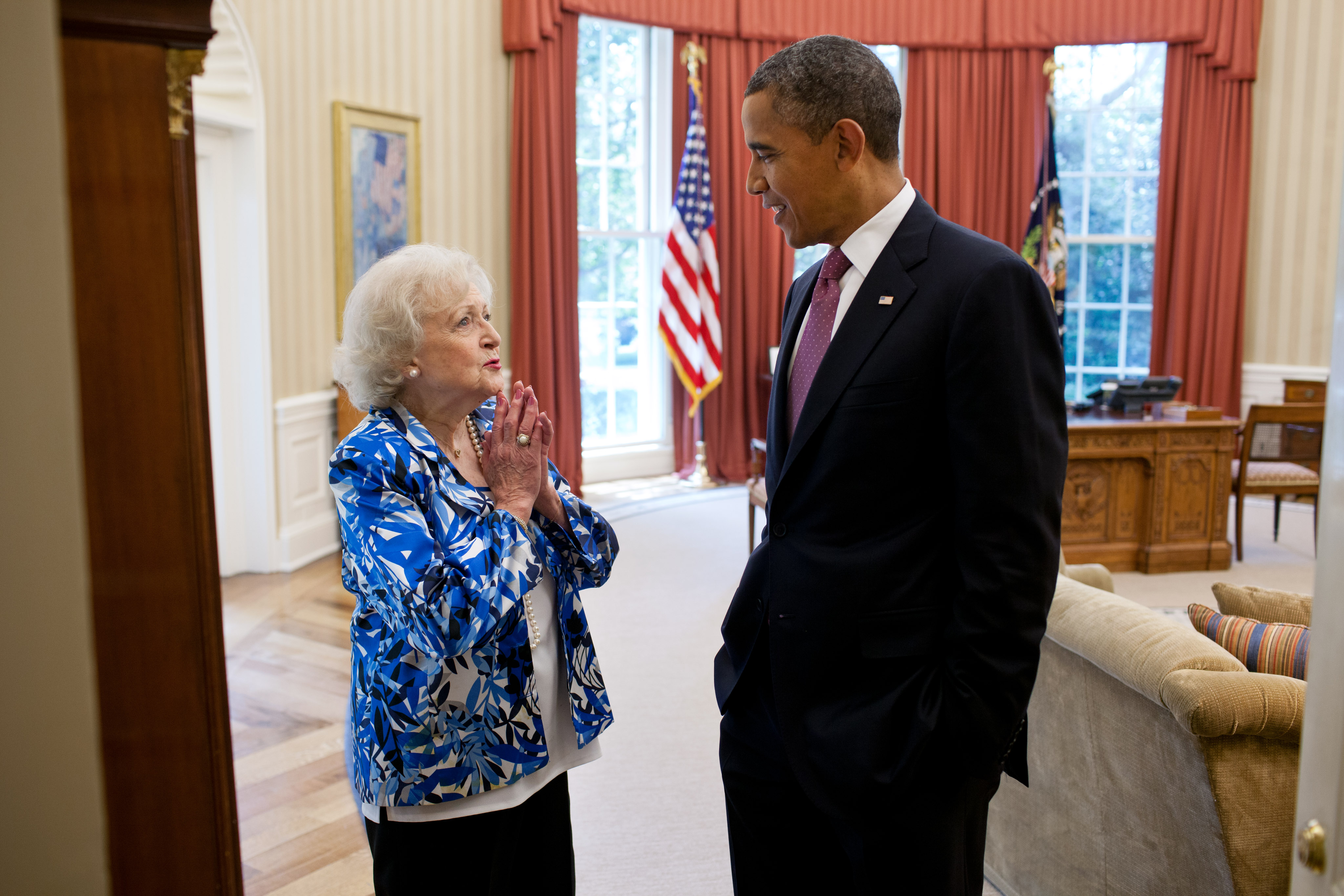 United States President Barack Obama talks with actress Betty White in the Oval Office on 11 June 2012 (P061112PS-0100).